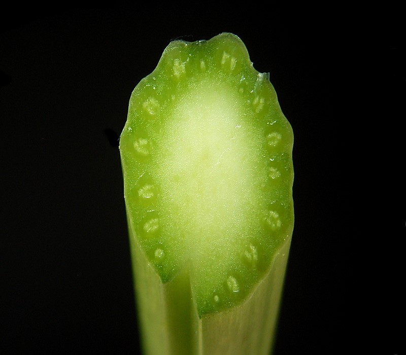 Armoracia rusticana petiole cross section